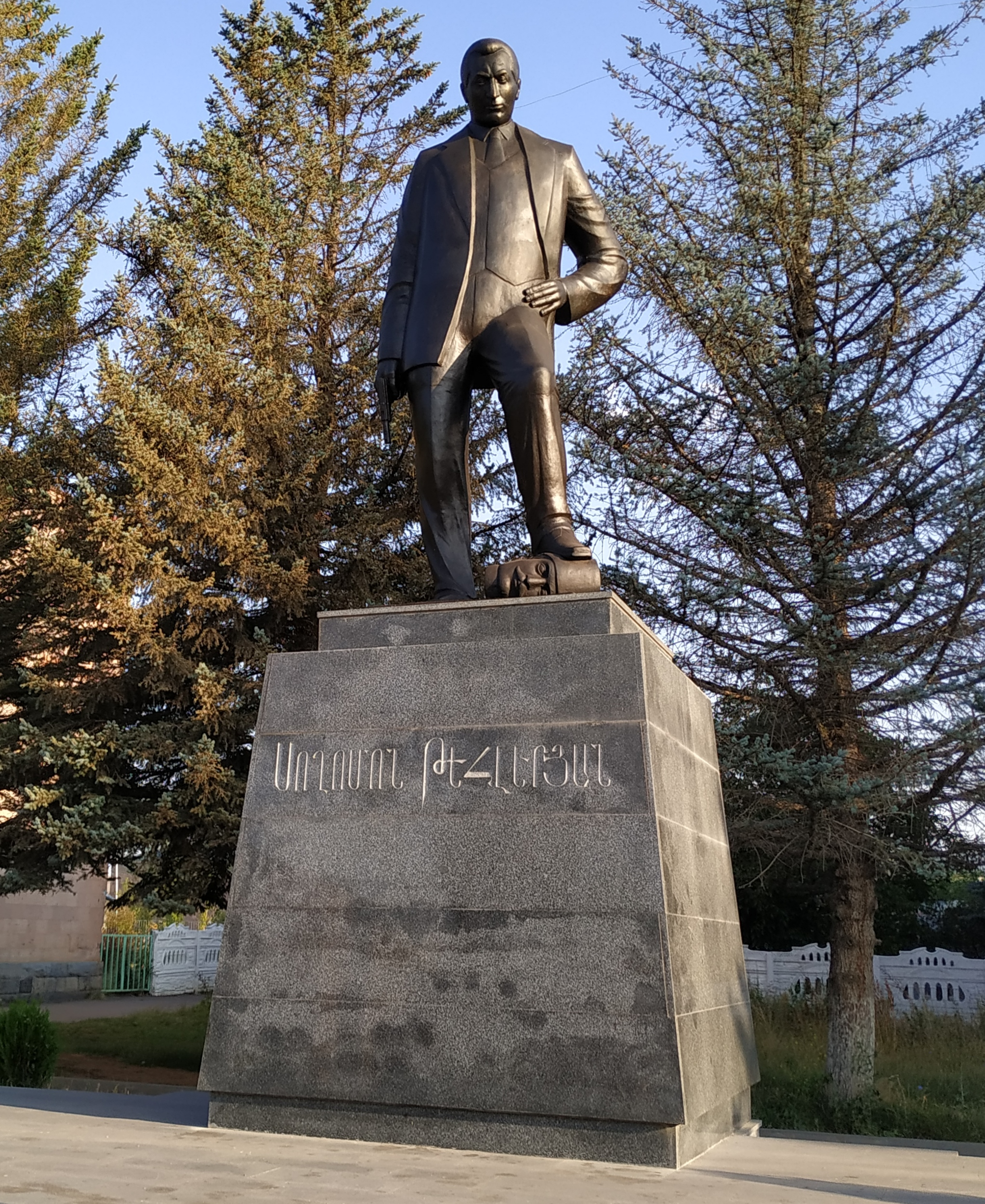 Soghomon Tehleryan Statue in Maralik